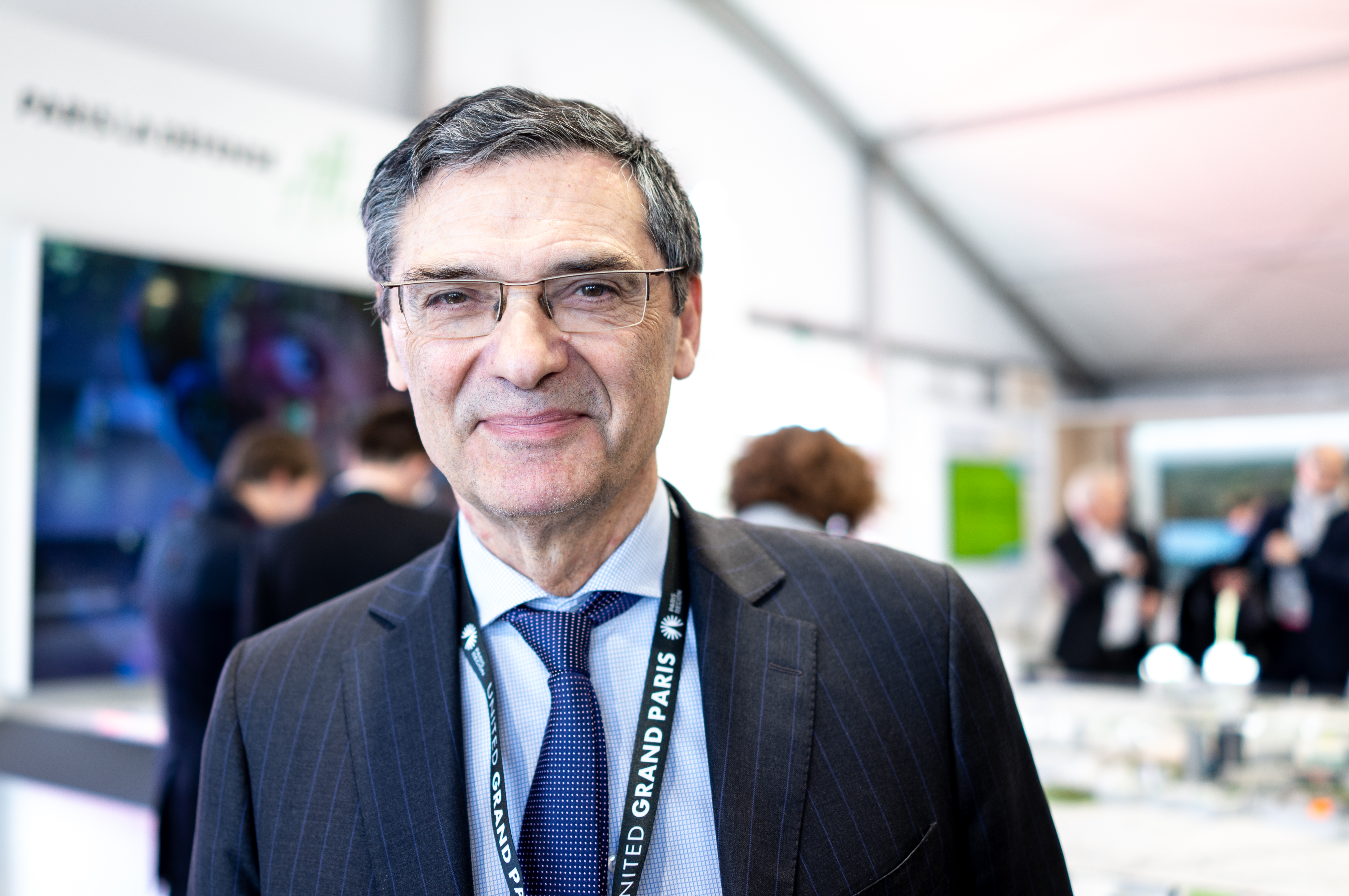 Patrick Devedjian